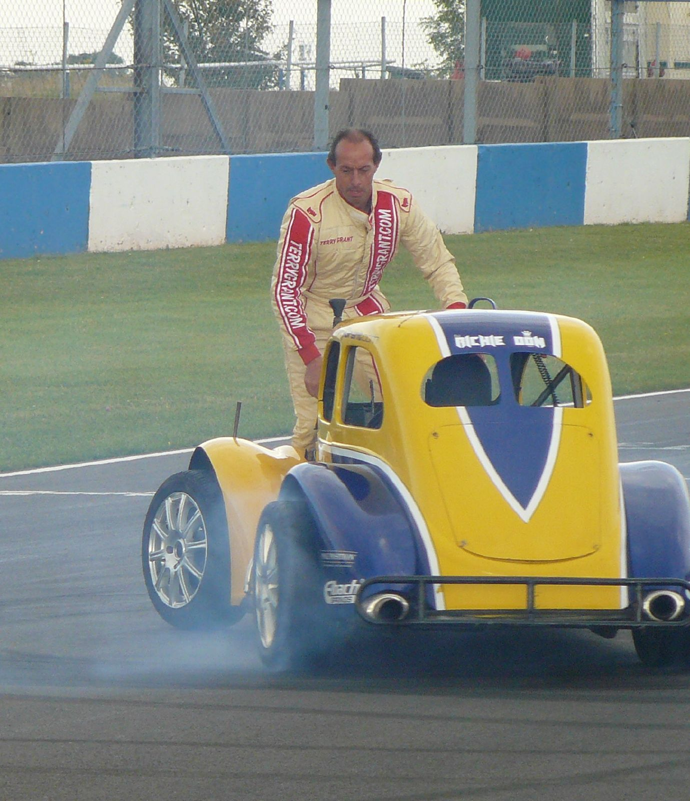 Stunt action by Terry Grant.